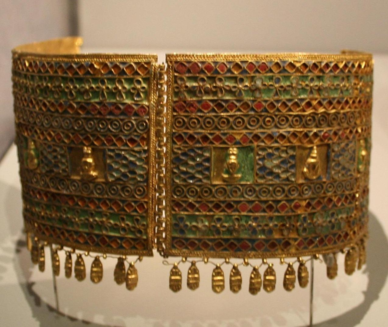 Jewellery of Amanishakheto from her pyramid at Meroe